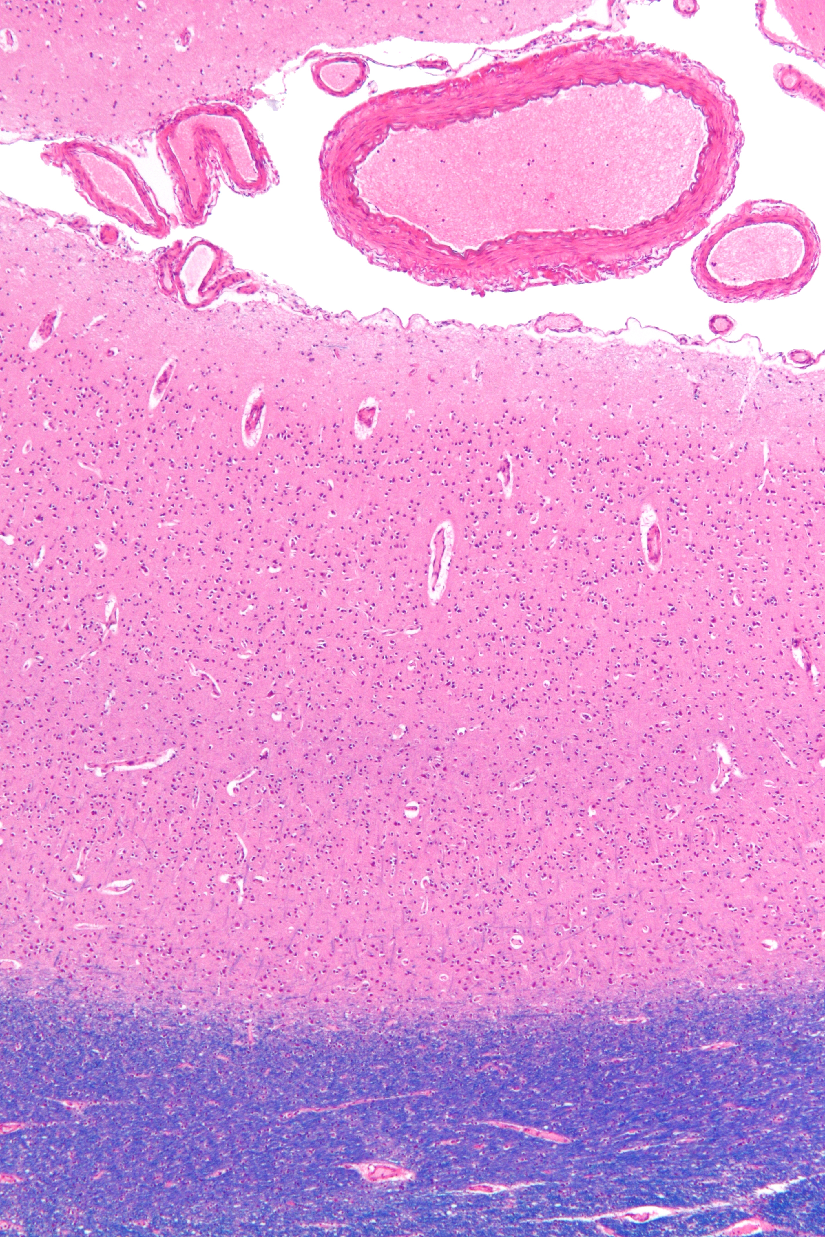 Low magnification micrograph of visual cortex. LFB stain. Related images Drawings of the cerebral cortex.